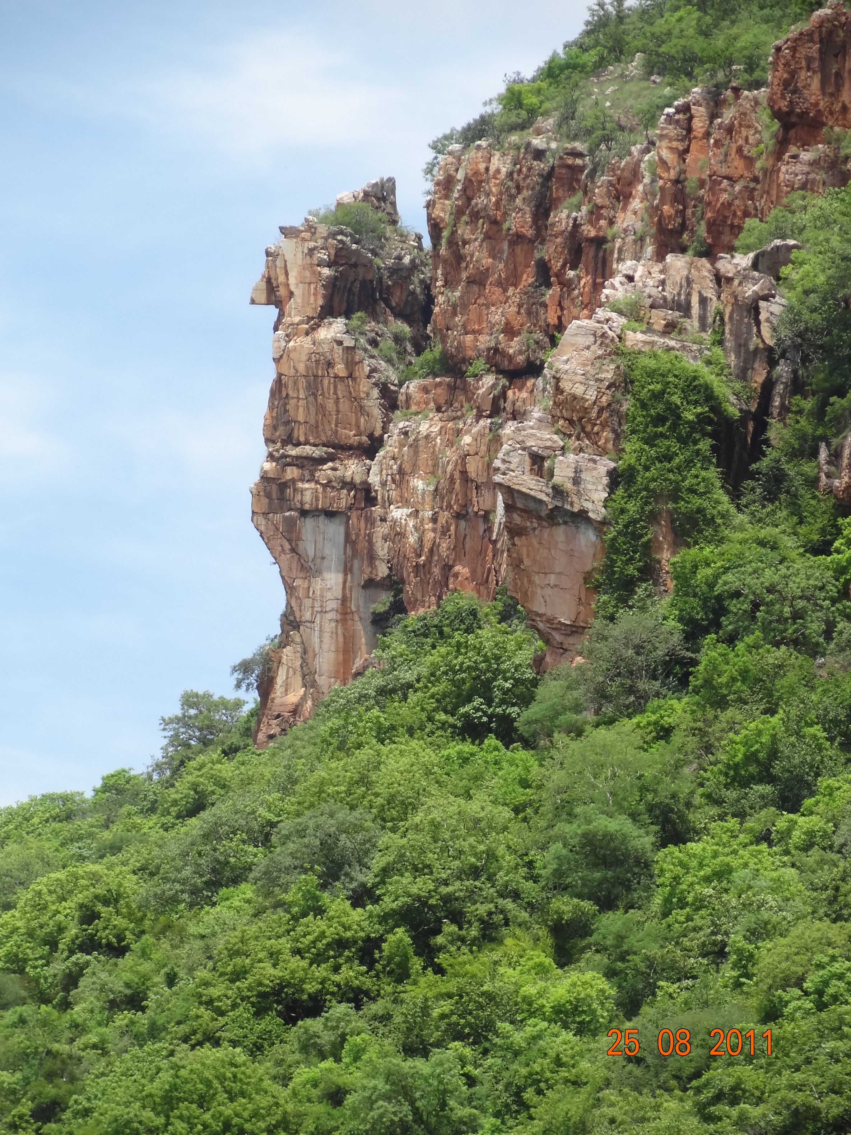 At Tirumala Hills, Andhra Pradesh, India. The rock cliff looks like Garuda, the Vehicle of Lord Mahavishnu.